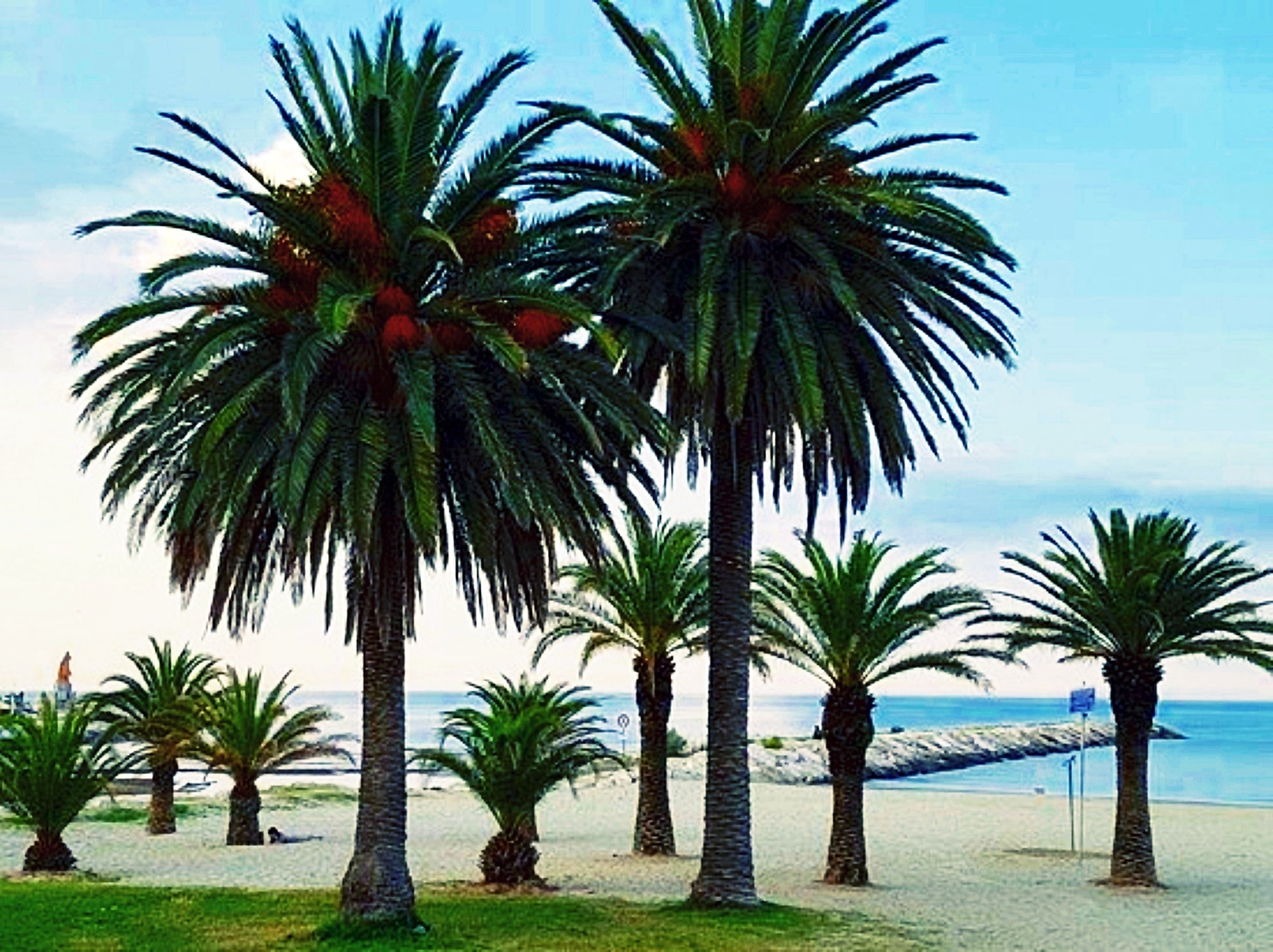 Phoenix canariensis on the beach of San Benedetto del Tronto